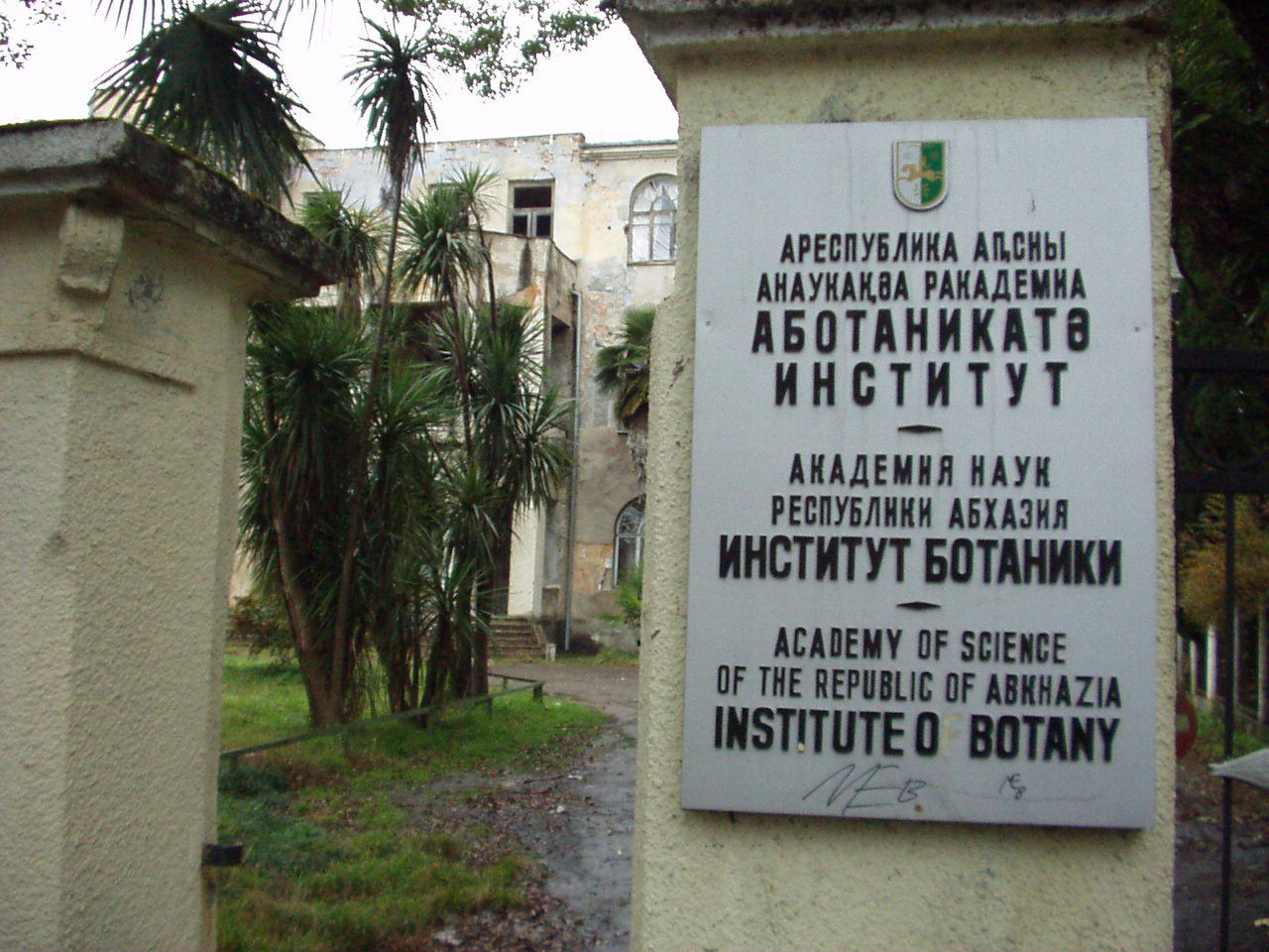 the plaque reads: "Academy of Science of the Republic of Abkhazia / Institute of Botany" — Sukhum, Abkhazia